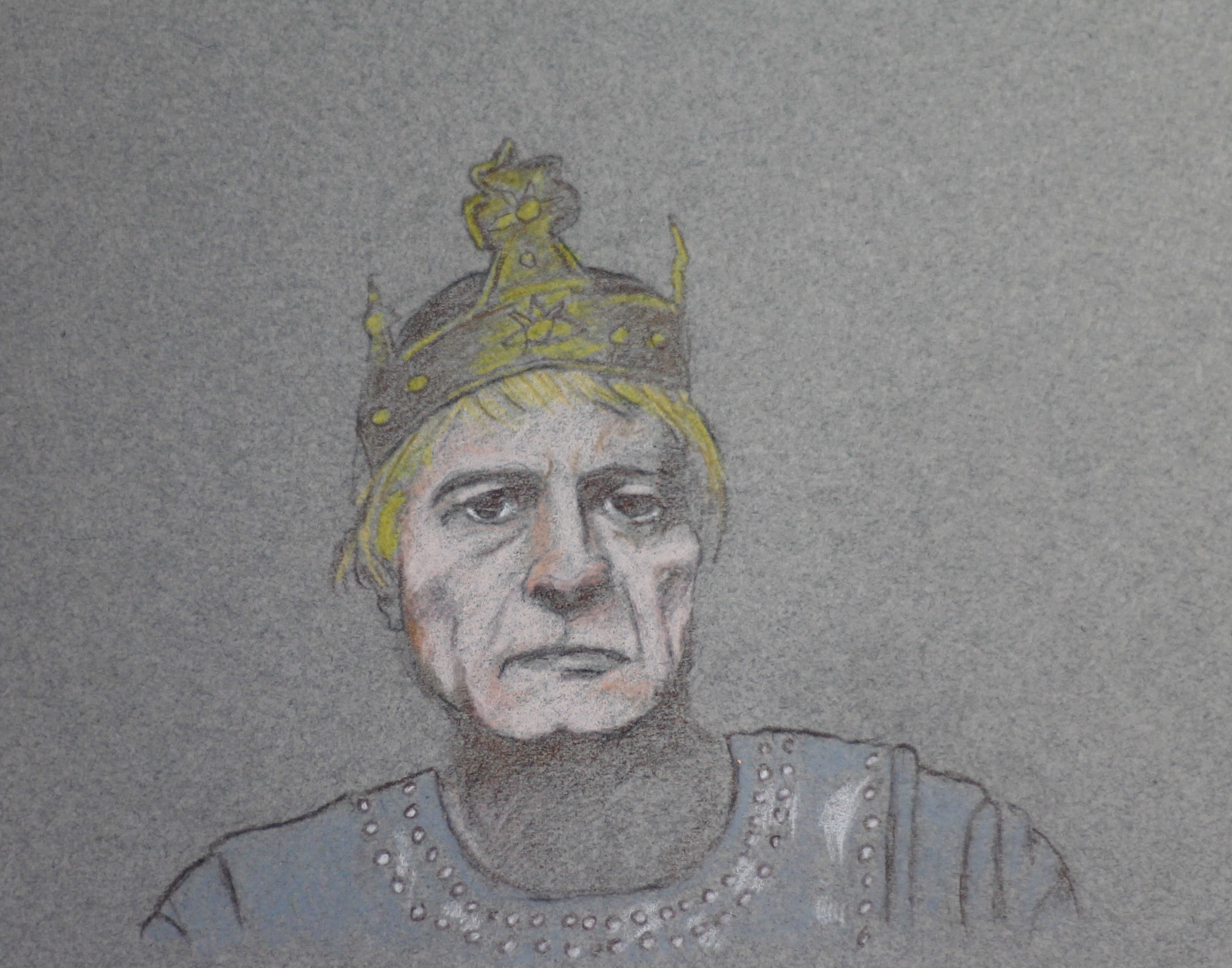 A pencil sketch of the actor Robert Pastene costumed as the title character in Piranello's Enrico IV""